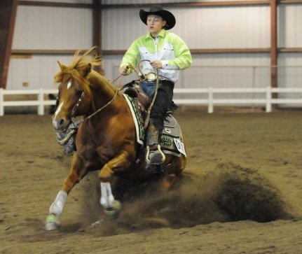 Woman sliding a horse.